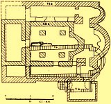 Basis of the archeological site Morodvis near Kocani, Republic of Macedonia